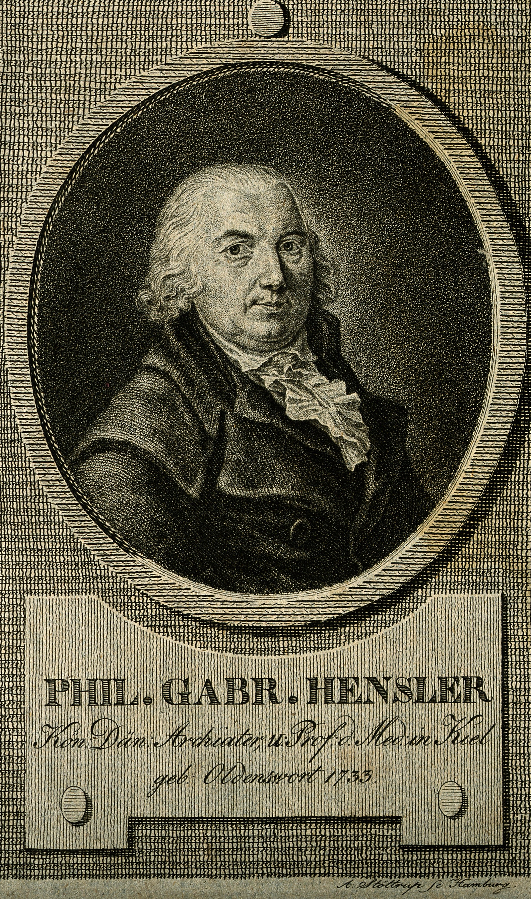 Philip Gabriel Hensler. Stipple engraving by Stöttrup. Iconographic Collections Keywords: portrait prints; Philipp Gabriel Hensler; stipple prints; Stottrup